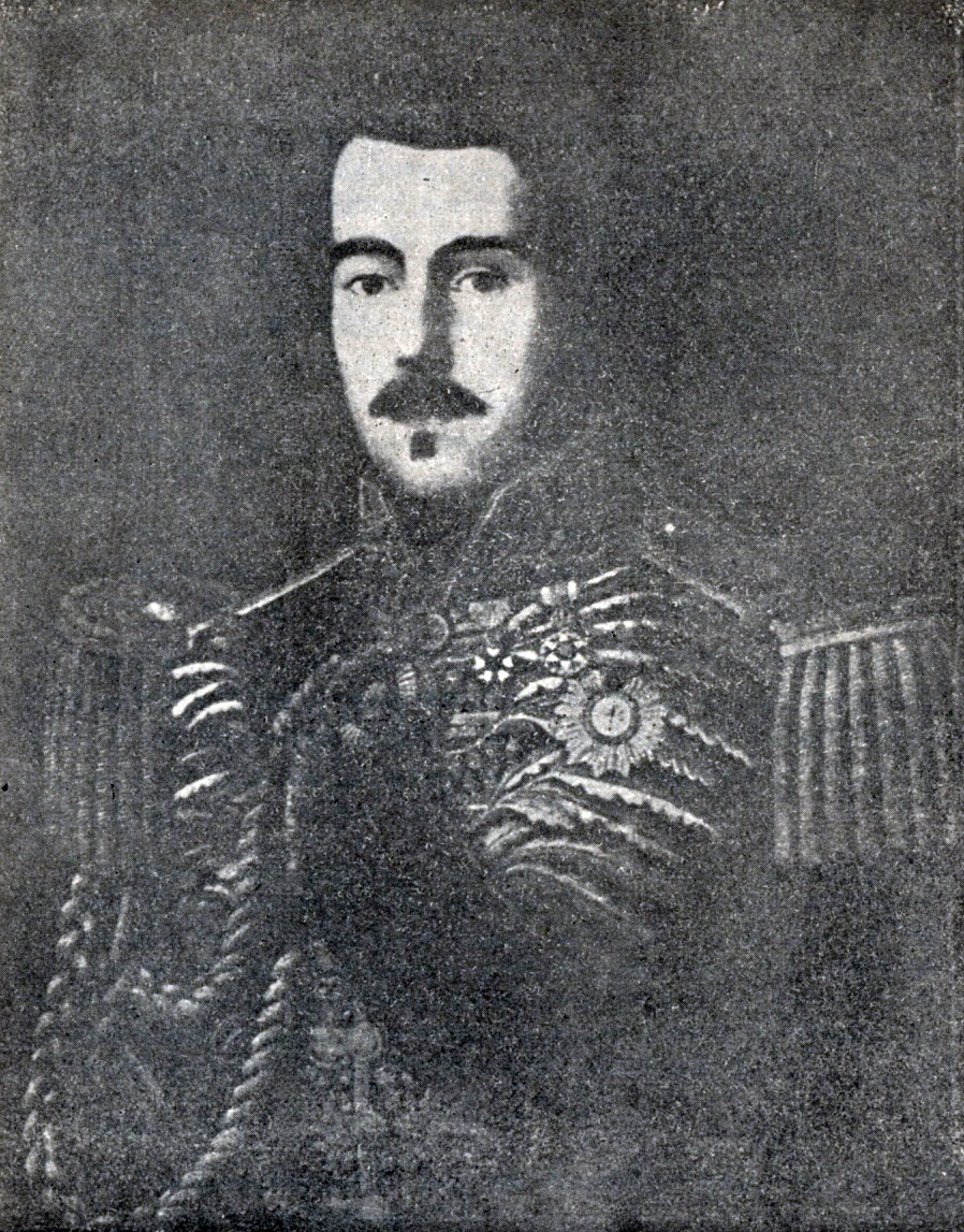 The Count (later Duke) of Caxias probably around 1846. This painting is located in the Fortaleza de São João (Fortress of Saint John) in Rio de Janeiro.